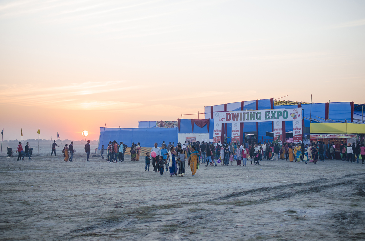 Dwijing Festival in Chirang, Assam